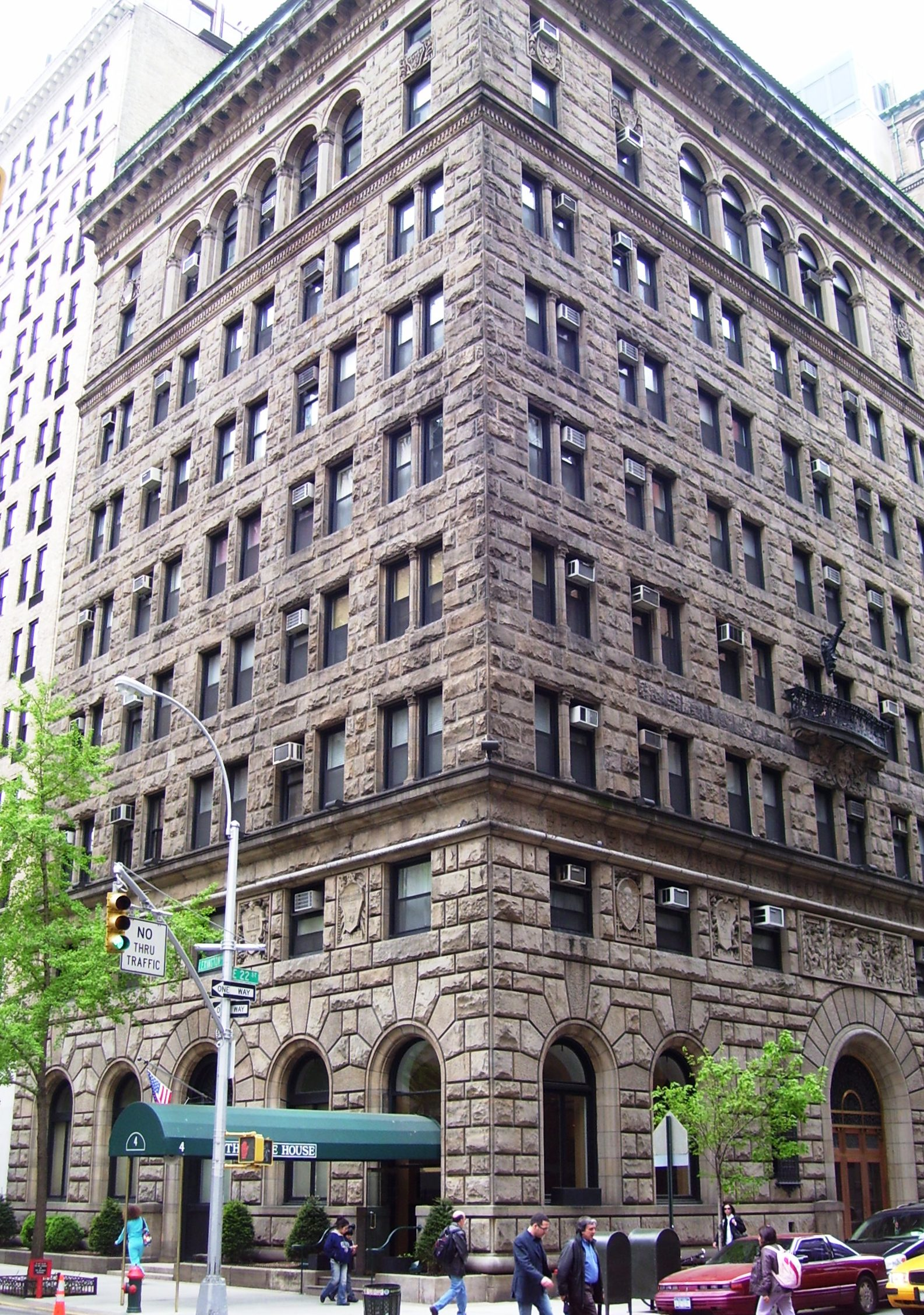 The Russell Sage Foundation Building, at 4 Lexington Avenue at East 22nd Street, was designed by Grosvenor Atterbury and built betwen 1912 and 1915 as headquarters for the Russell Sage Foundation. The Foundation sold it to the Archdiocese of New York in 1949, and it was subsequently sold in 1975. It is now condominiums and is called Sage House.